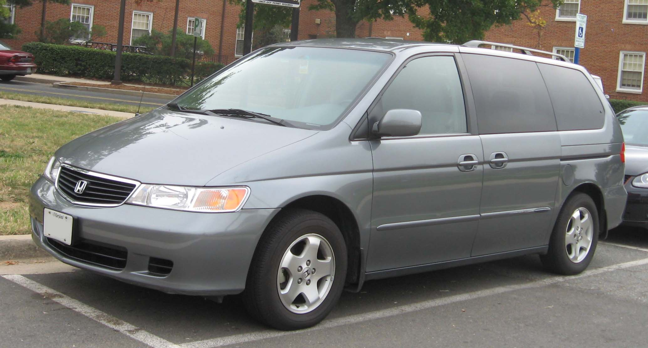 1999-2001 Honda Odyssey photographed in College Park, Maryland, USA.